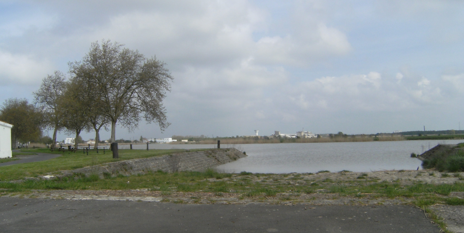 Bords de la Charente à Rochefort